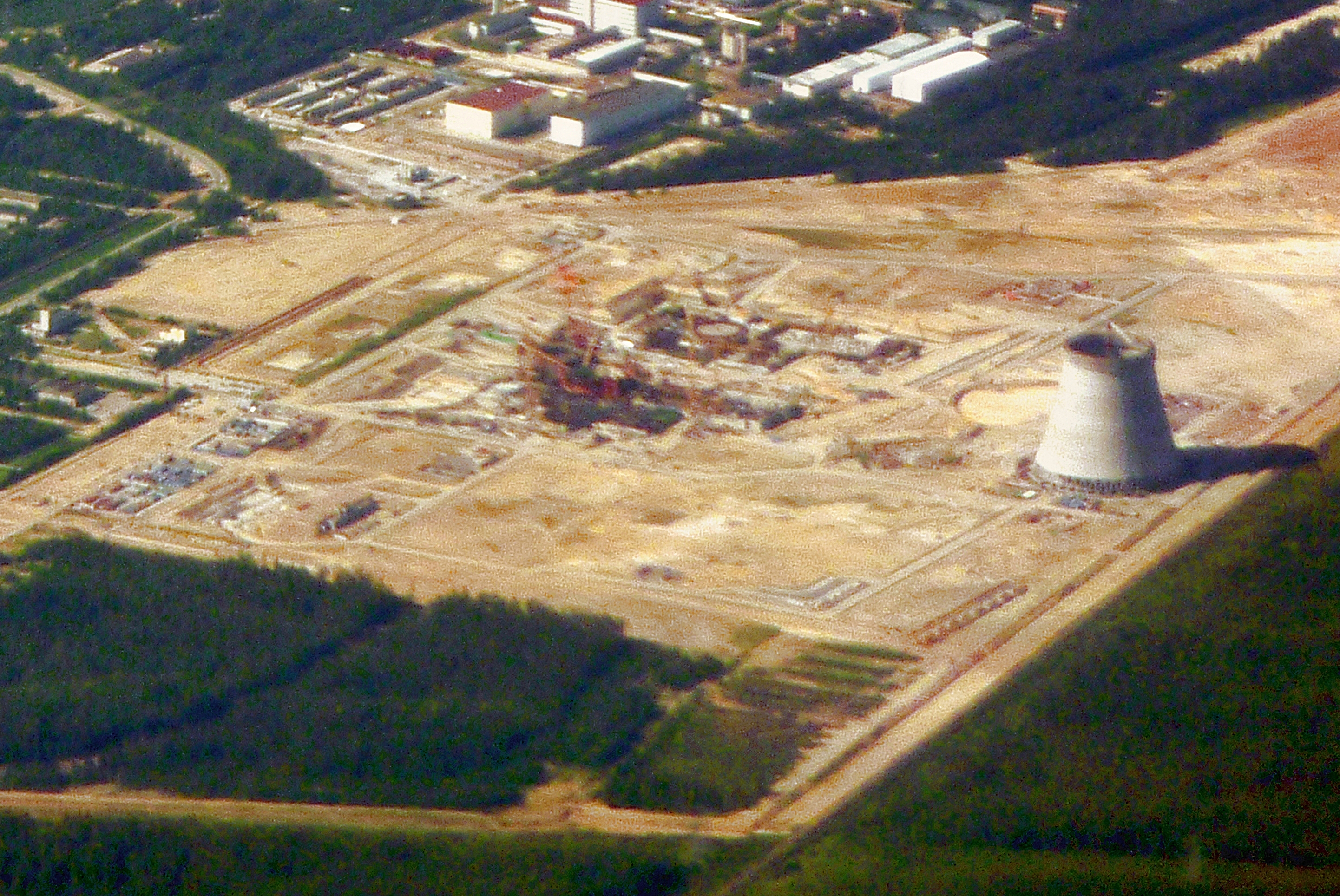 Construction site of the Nuclear Power Plant Leningrad II; photo taken from an airplane.